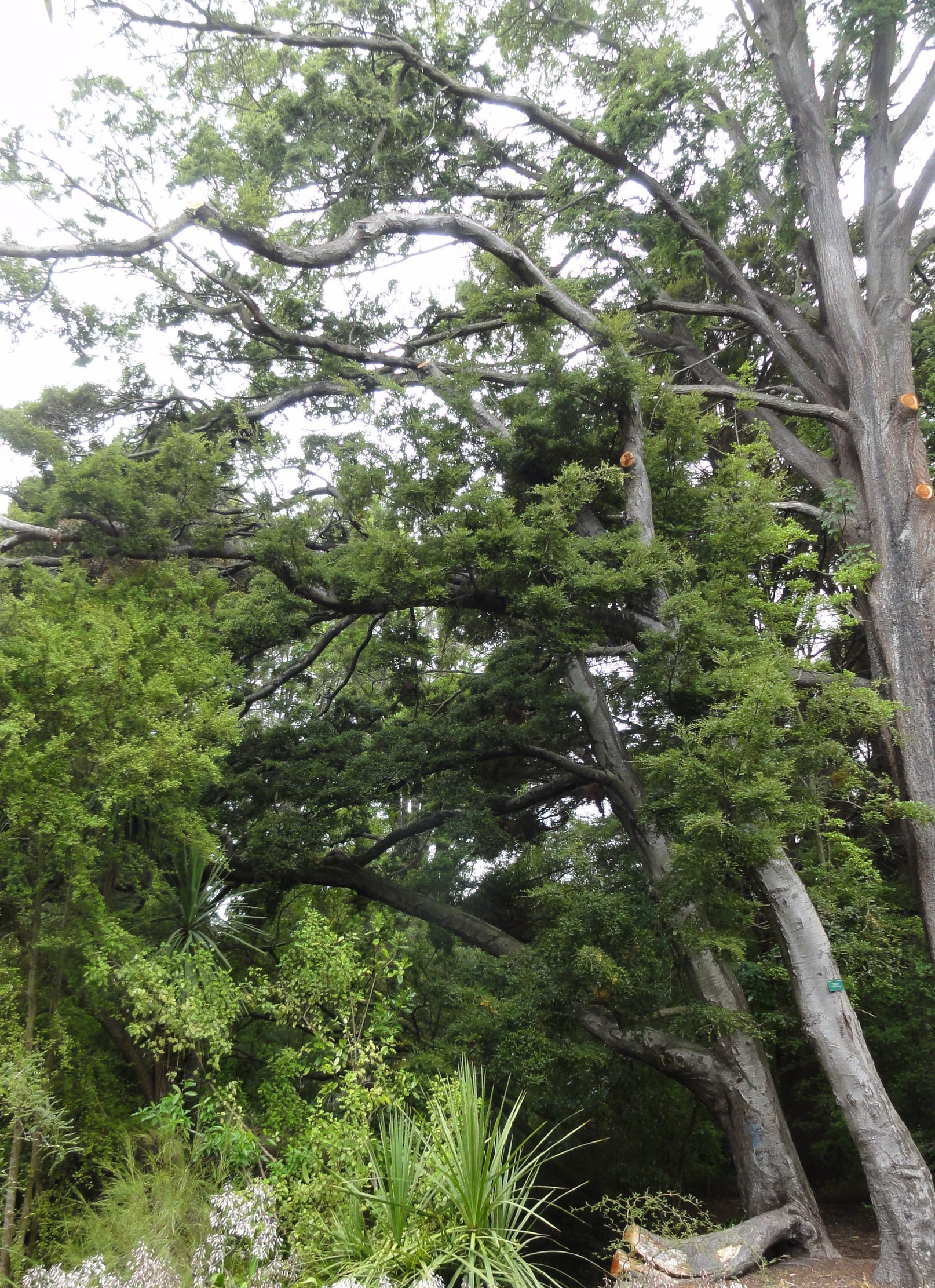 Nothofagus menziesii